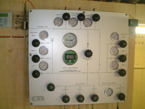 I photographed this myself